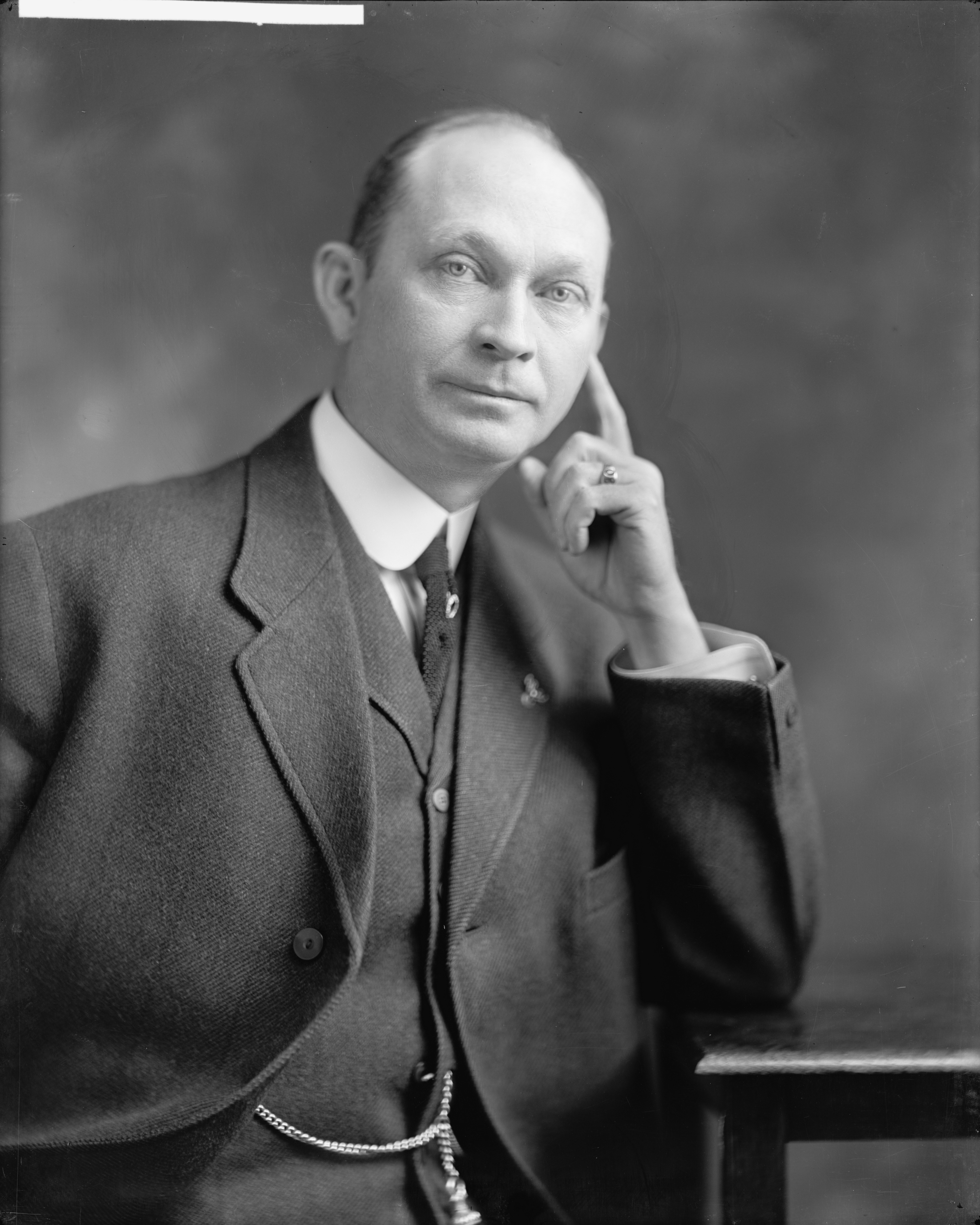 Kentucky Congressman and Clerk of the U.S. House of Representatives South Trimble